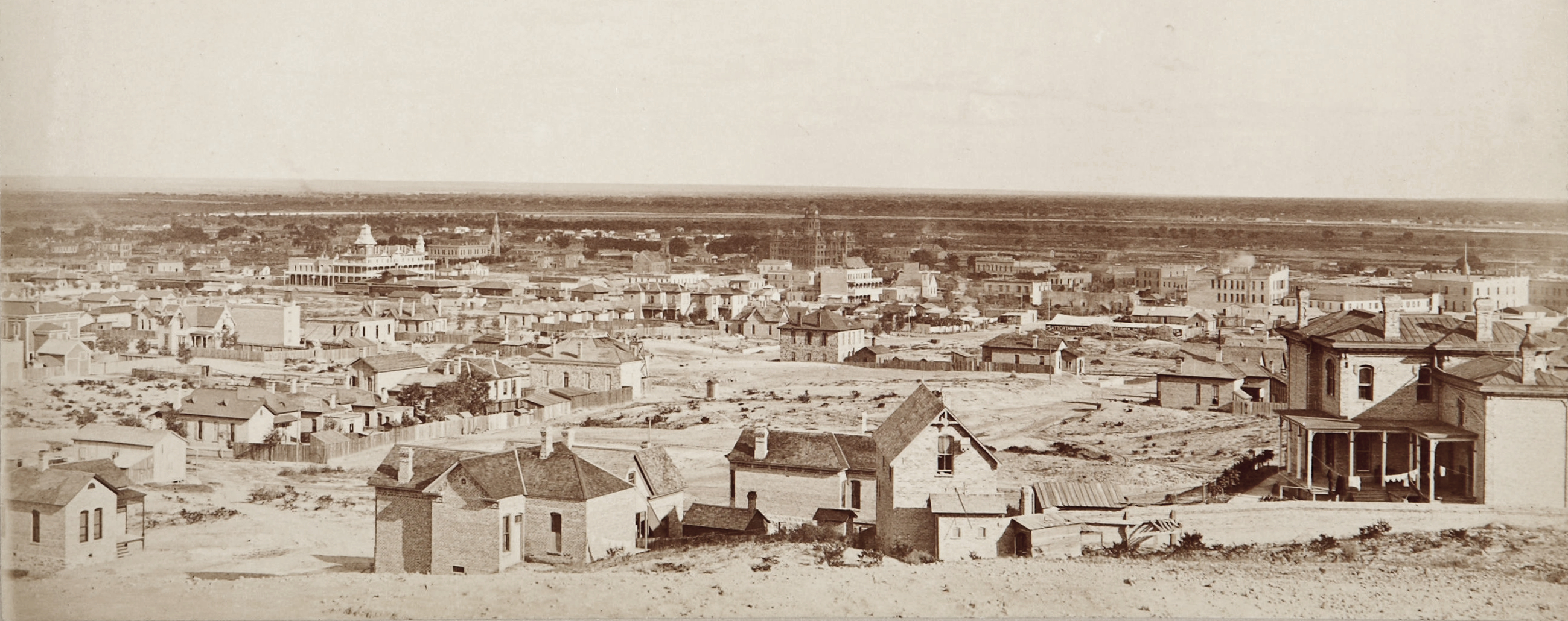 Albumen photograph of El Paso, Texas